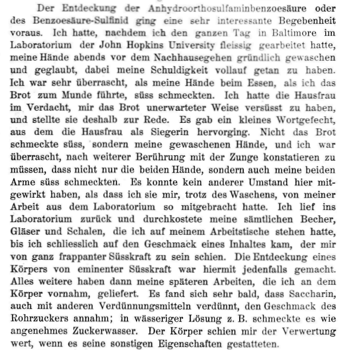 Repro from "V.Internationaler Kongress für angewandte Chemie, Berlin 2.-8.Juni 1903, Bericht zweiter Band, Seite 625ff, C.Fahlberg, 25 Jahre im Dienste der Saccharin-Industrie"